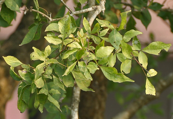 Bael Aegle marmelos at Narendrapur near Kolkata, West Bengal, India.